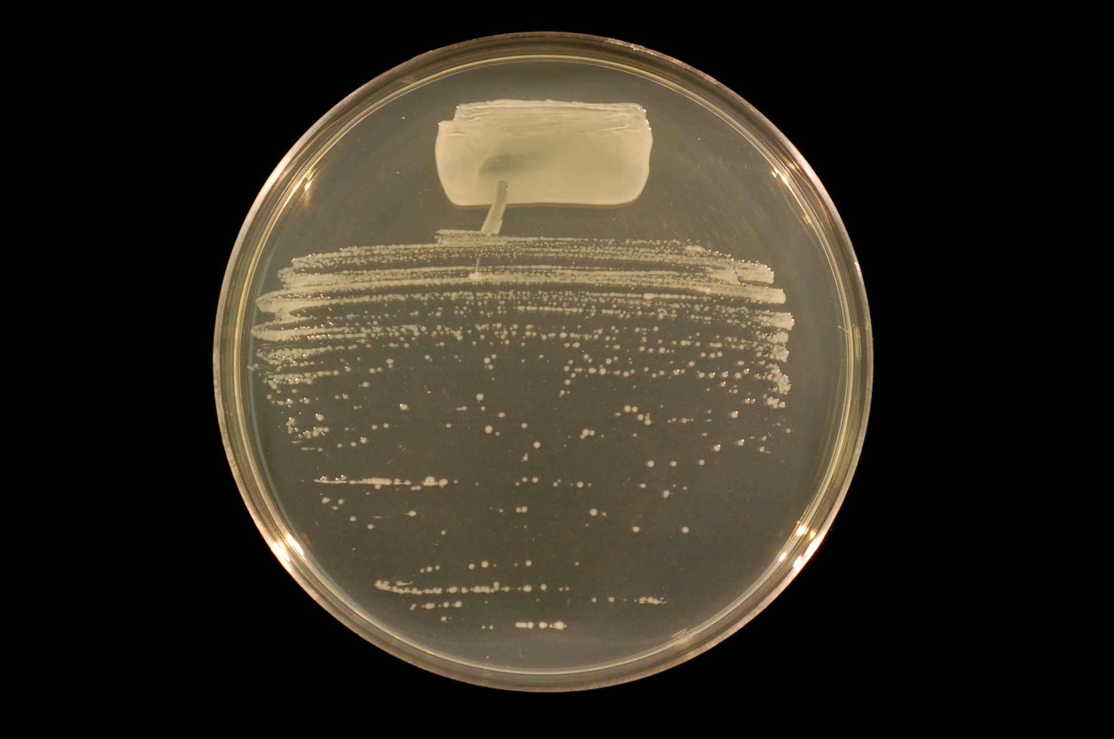 The bacterium Rhizobium tropici strain BR816 streaked to single colonies on Tryptone-Yeast Extract (TY) agar.